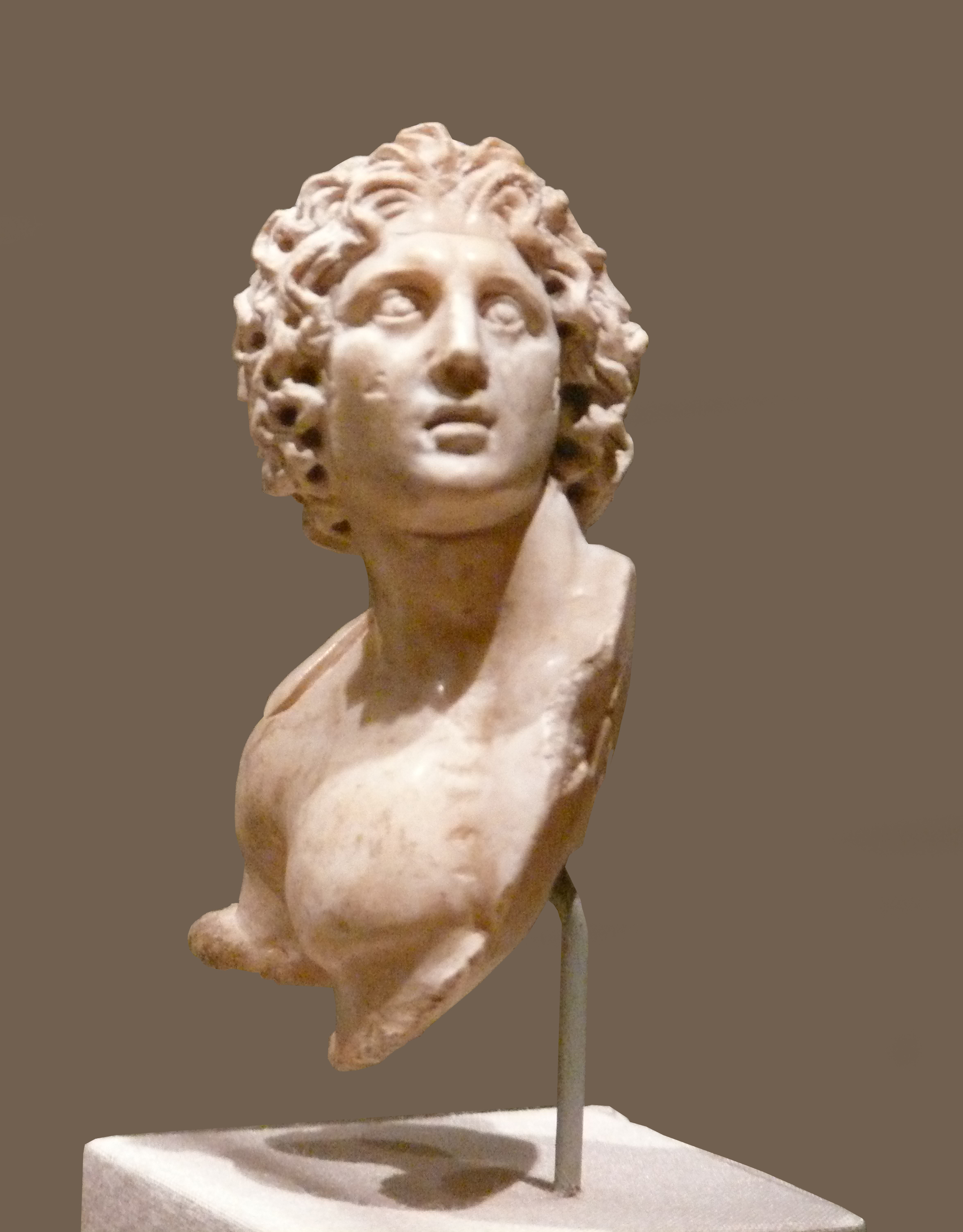 Egyptian alabaster statuette of Alexander the Great in the Brooklyn Museum, reportedly from Egypt.